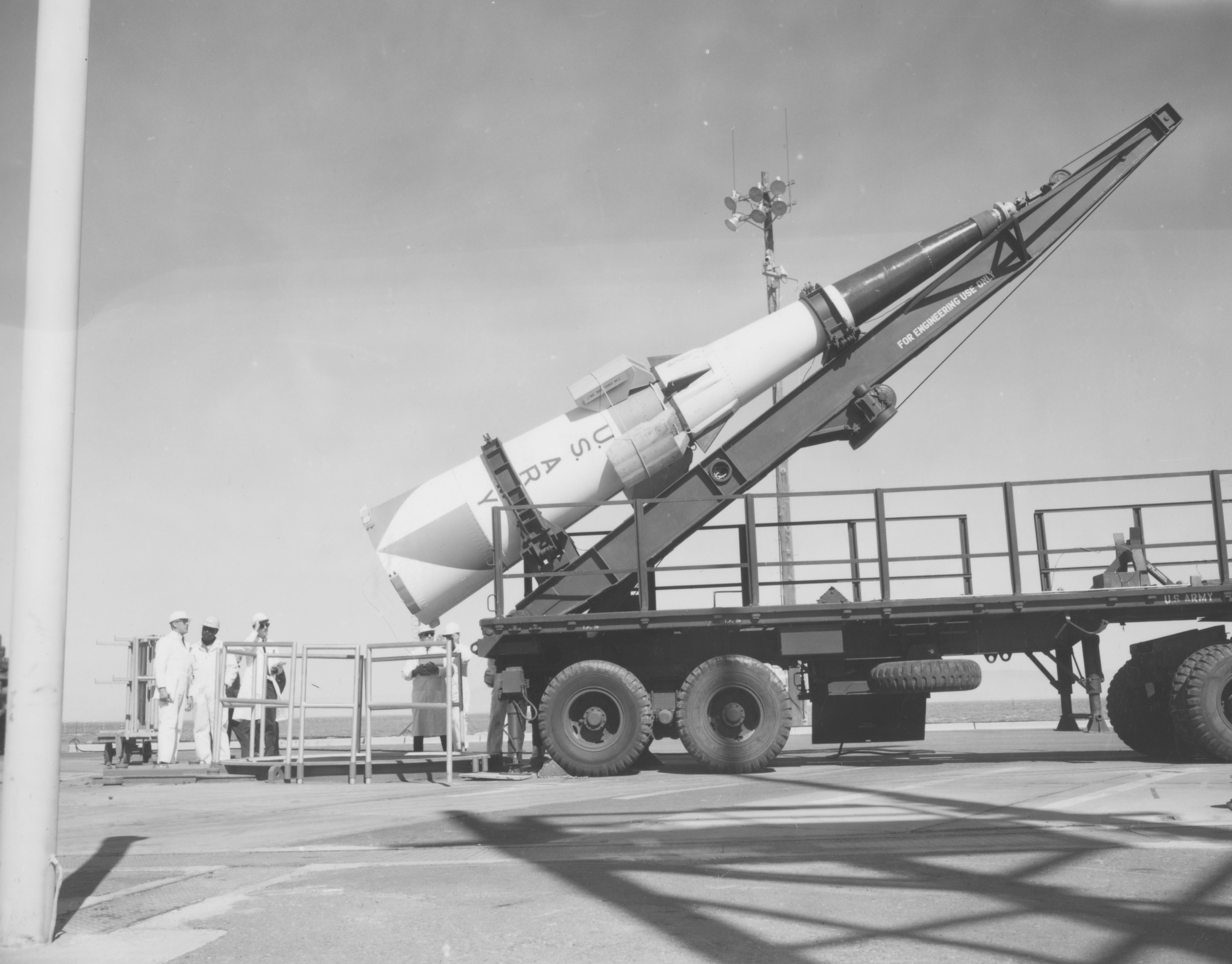 SPRINT at LC50 WSMR, 1 March 67